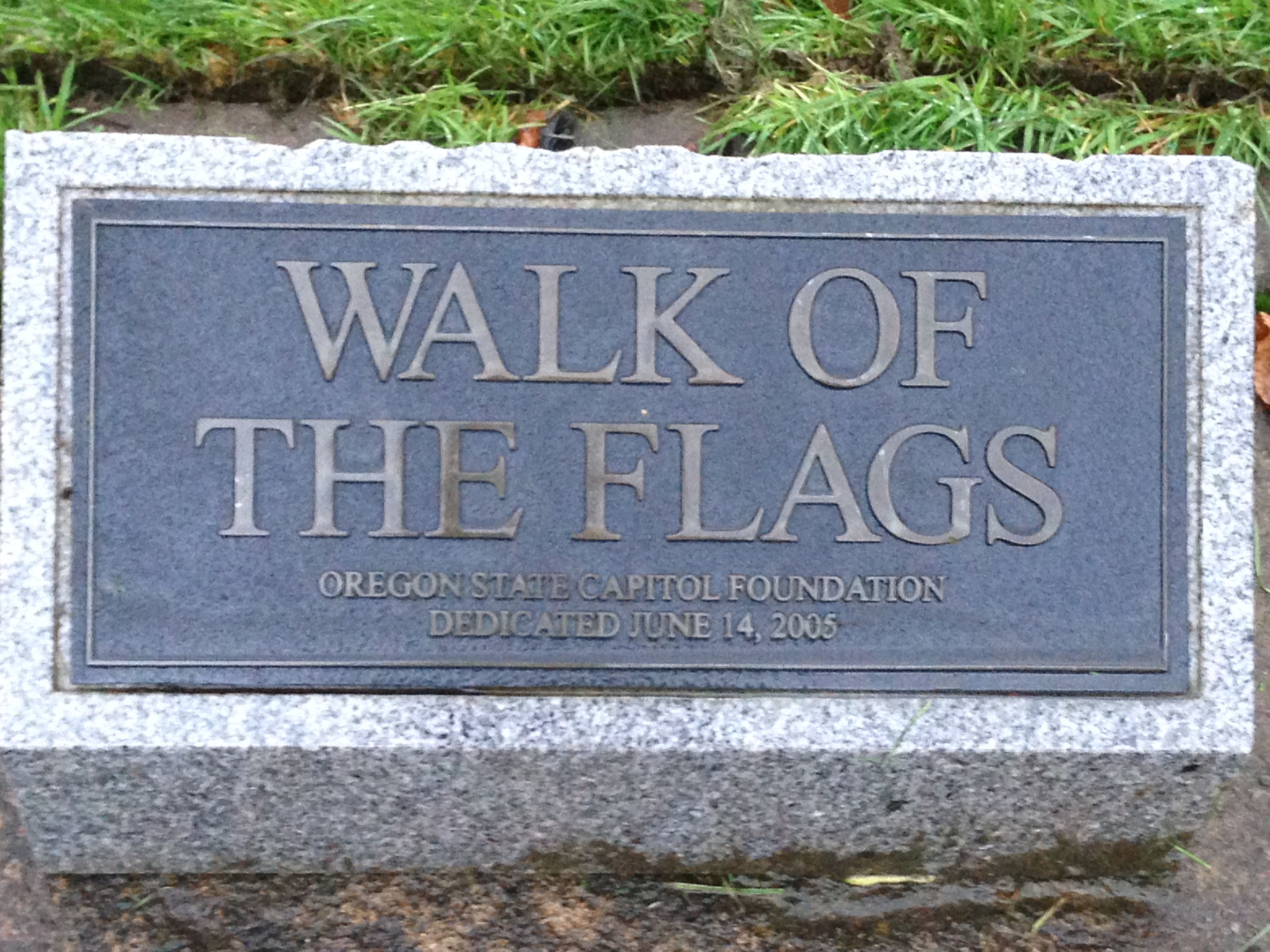 Walk of the Flags Oregon State Capitol Foundation Dedicated June 14, 2005